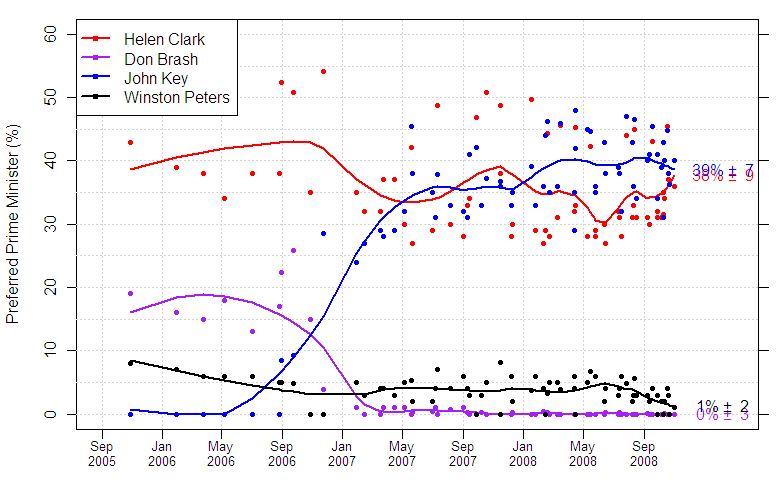 Preferred Prime Minister Poll, New Zealand General Elections